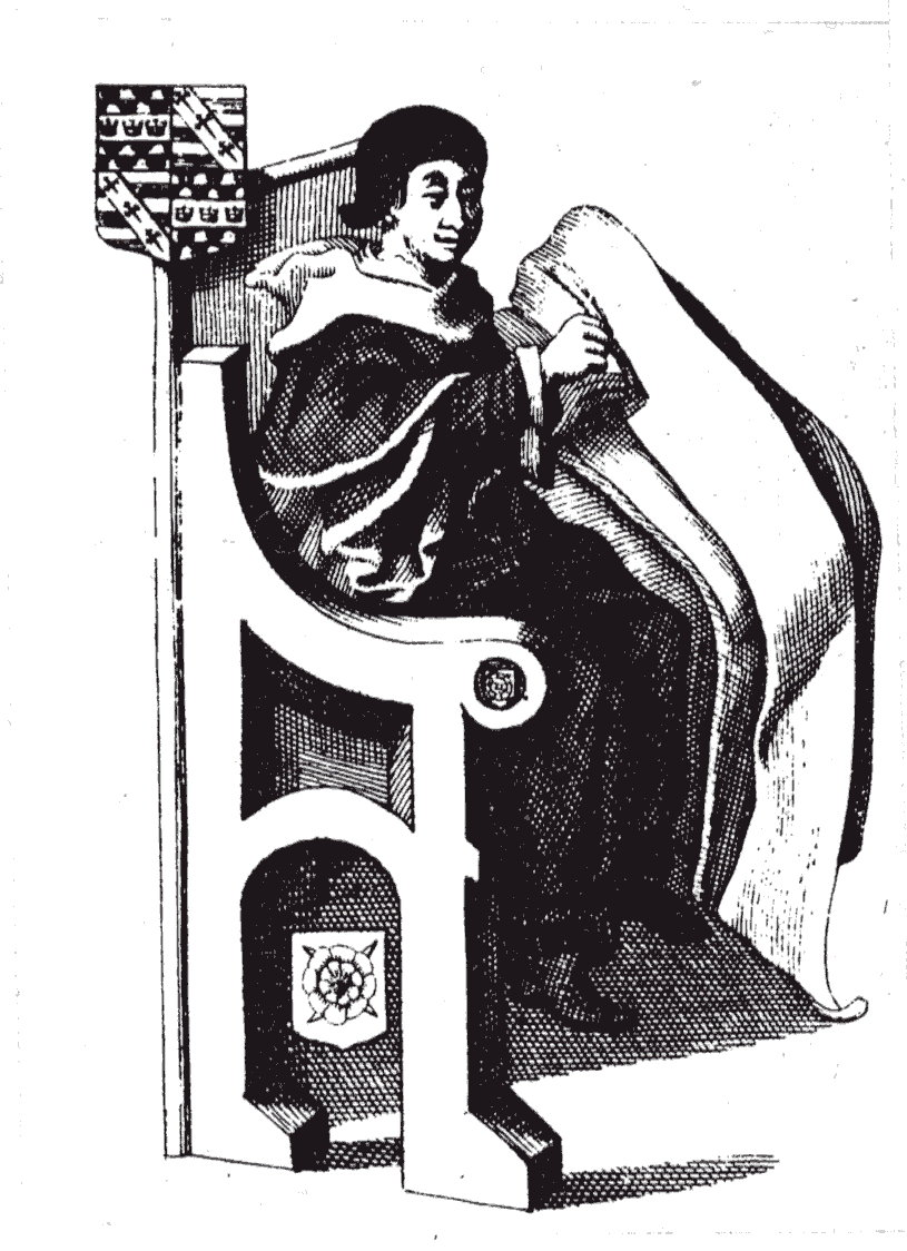 1845 reproduction of 15th century illustration depicting medieval historian John Rous